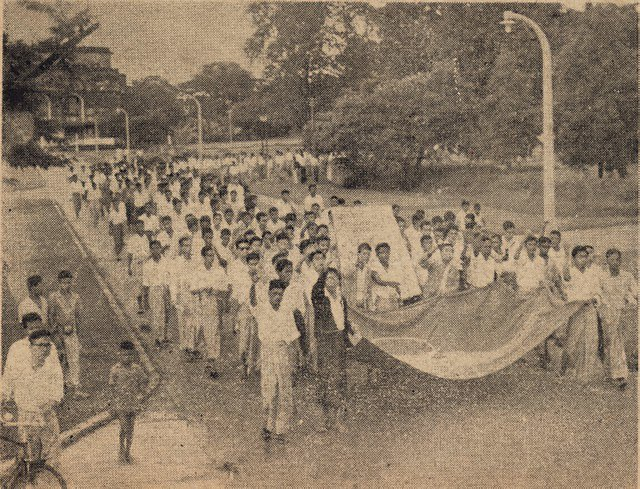 7-7-62 Peaceful march from Convocation Hall on Chancellor Road